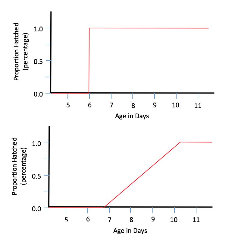 Hatch rates for red-eyed tree frog tadpoles depends on predation by cat-eyed snakes (here: Leptodeira septentrionalis). Experimental clutches were exposed to attack by snakes at age 6 days (top); control clutches were not attacked (bottom). Y-axis: proportion hatched out of total hatch for each clutch. Age (of eggs) is plotted from the night eggs were laid (oviposition). Experimental clutches hatched rapidly and simultaneously when attacked by snakes; if they were not attacked they took more time to develop and hatch at their own rates. Modified after Warkentin 1995 [1]